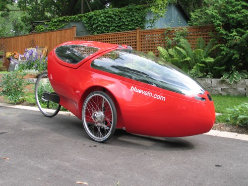 Go-One 3, a velomobile, or a weatherproof recumbent tricycle made by Beyss Leichtfahrzeuge